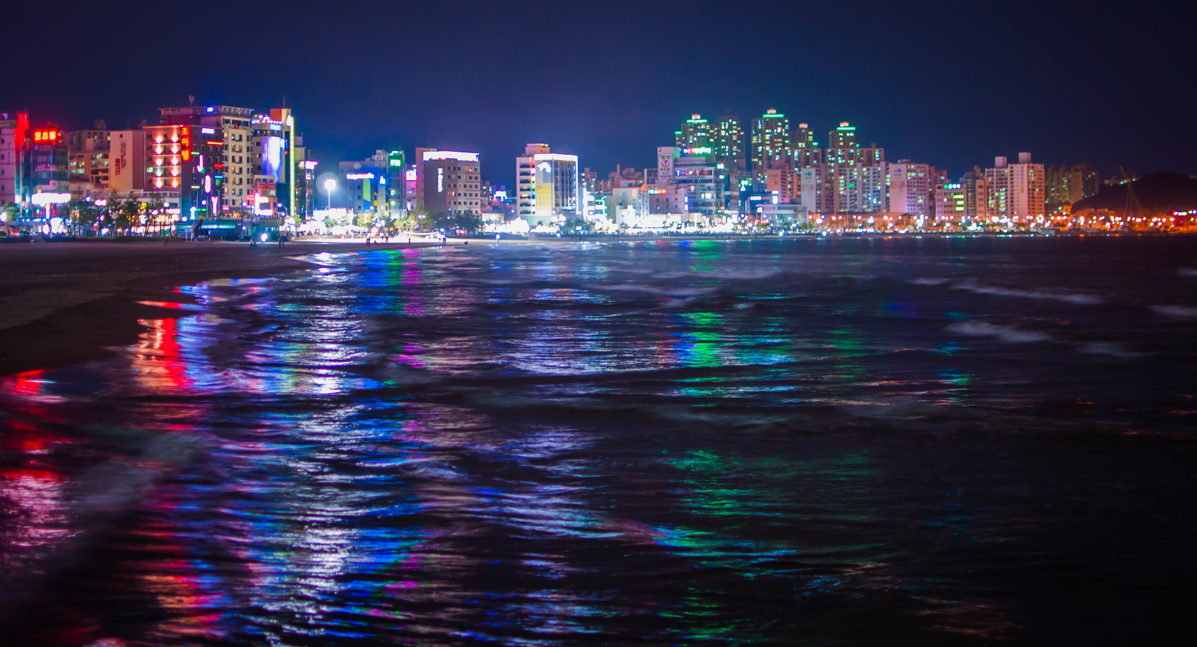 Pohang skyline